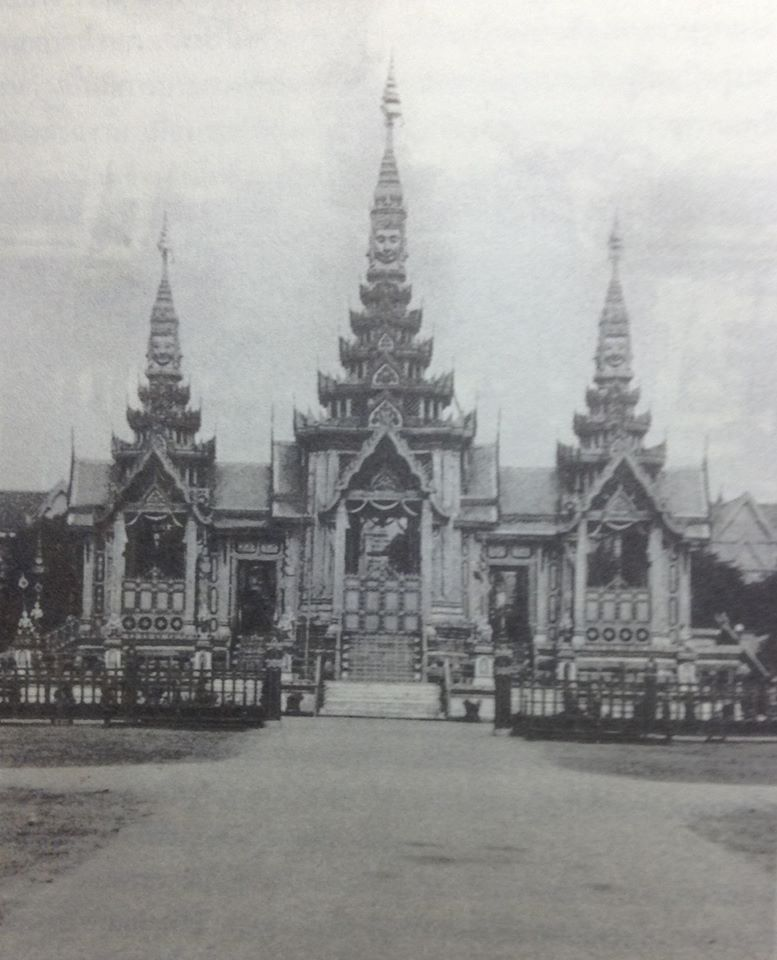 Royal Crematorium of Queen Saovabha Phongsri 1921